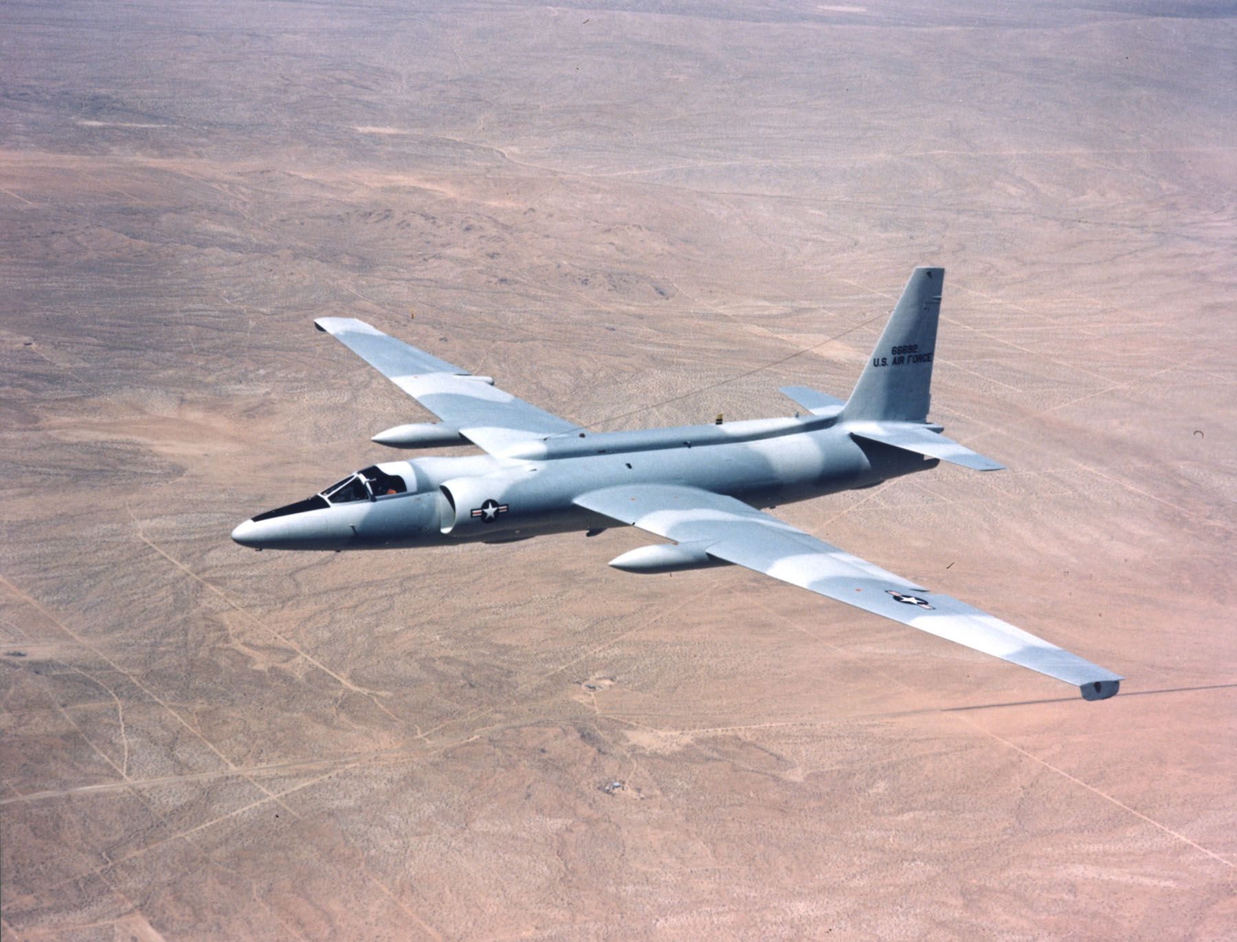 U-2s Around the World in the Cold War A U-2C painted in a gray camouflage pattern called the “Sabre” scheme in 1975. The camouflage replaced the usual black finish to ease British concerns about “spy planes” operating from the UK. In Europe, this U-2 tested equipment to locate and suppress enemy surface-to-air missiles.